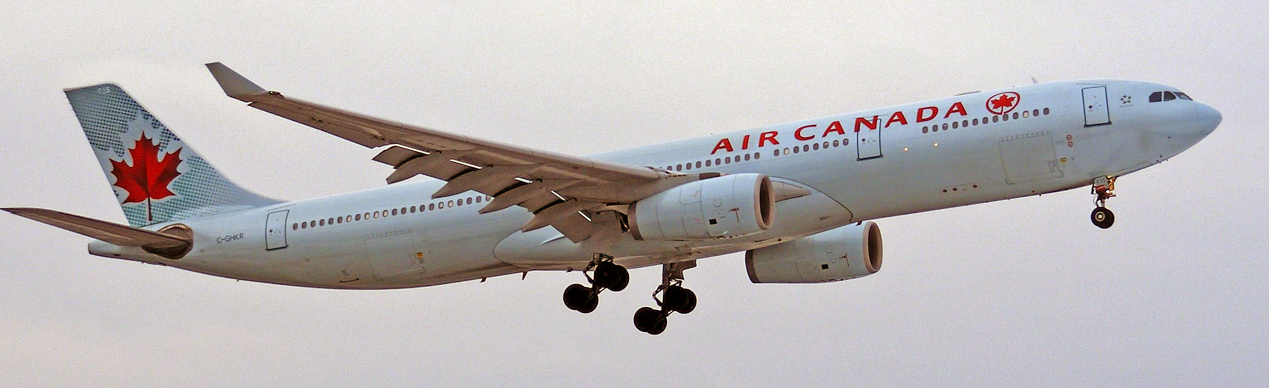 Airbus 330 of Air Canada approaching Montréal "Pierre-Elliott-Trudeau" Intl. airport's runway 24 R